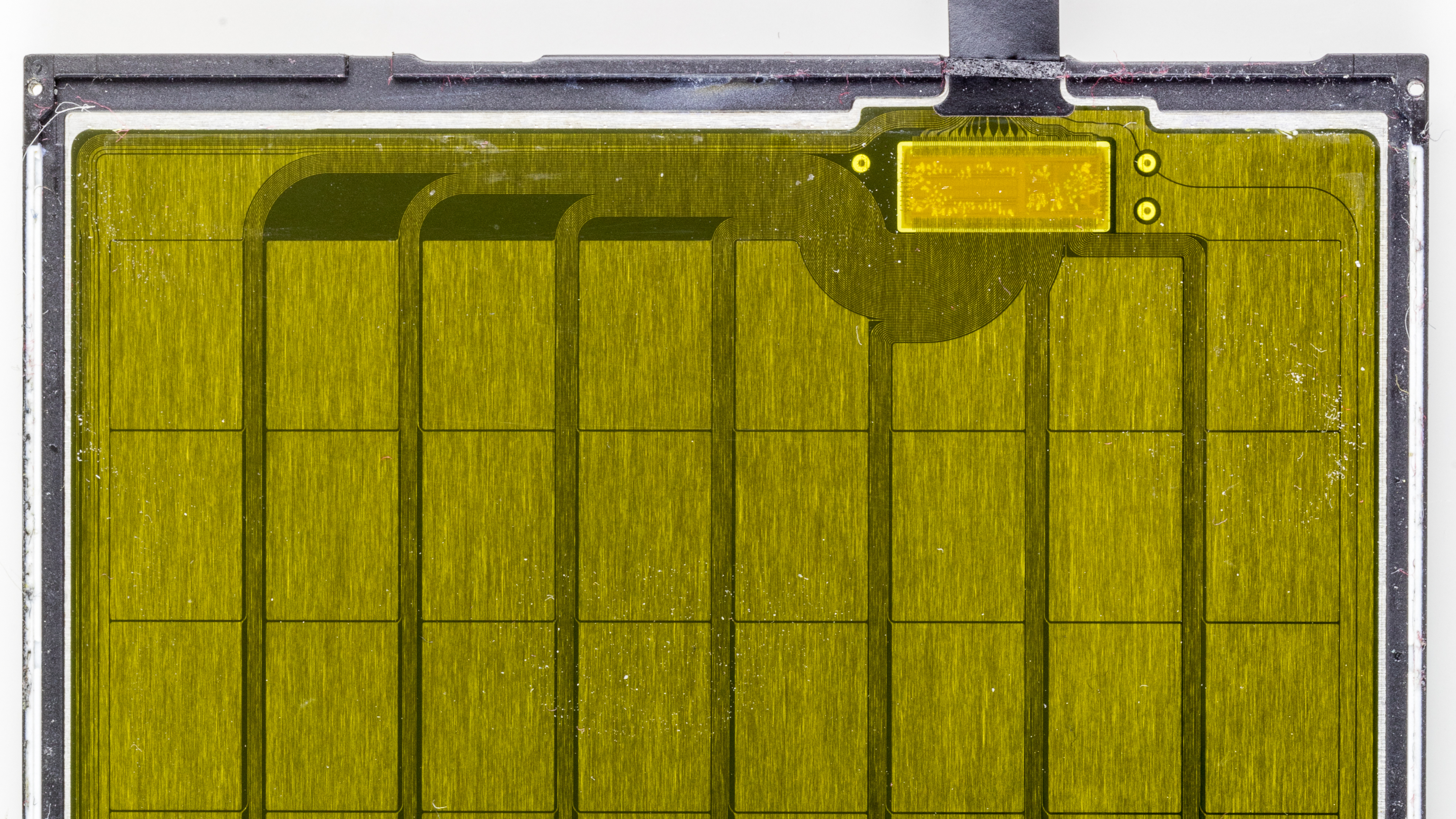 IPhone 6s - display - 3D Touch sensor (capacitive sensors)